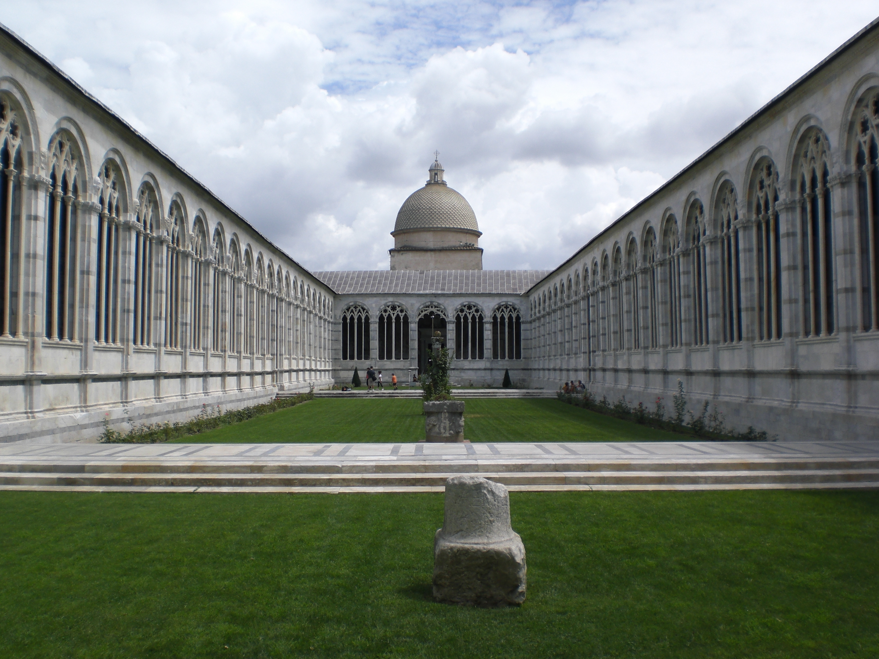 Interior Courtyard of the Campo Santo, also known as Camposanto Monumentale ("monumental cemetery") or Camposanto Vecchio ("old cemetery")